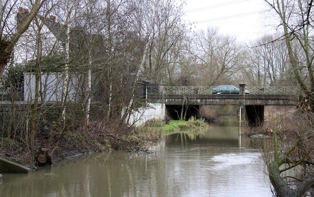 Bridge carrying Botley Road over Seacourt Stream, New Botley, Oxford